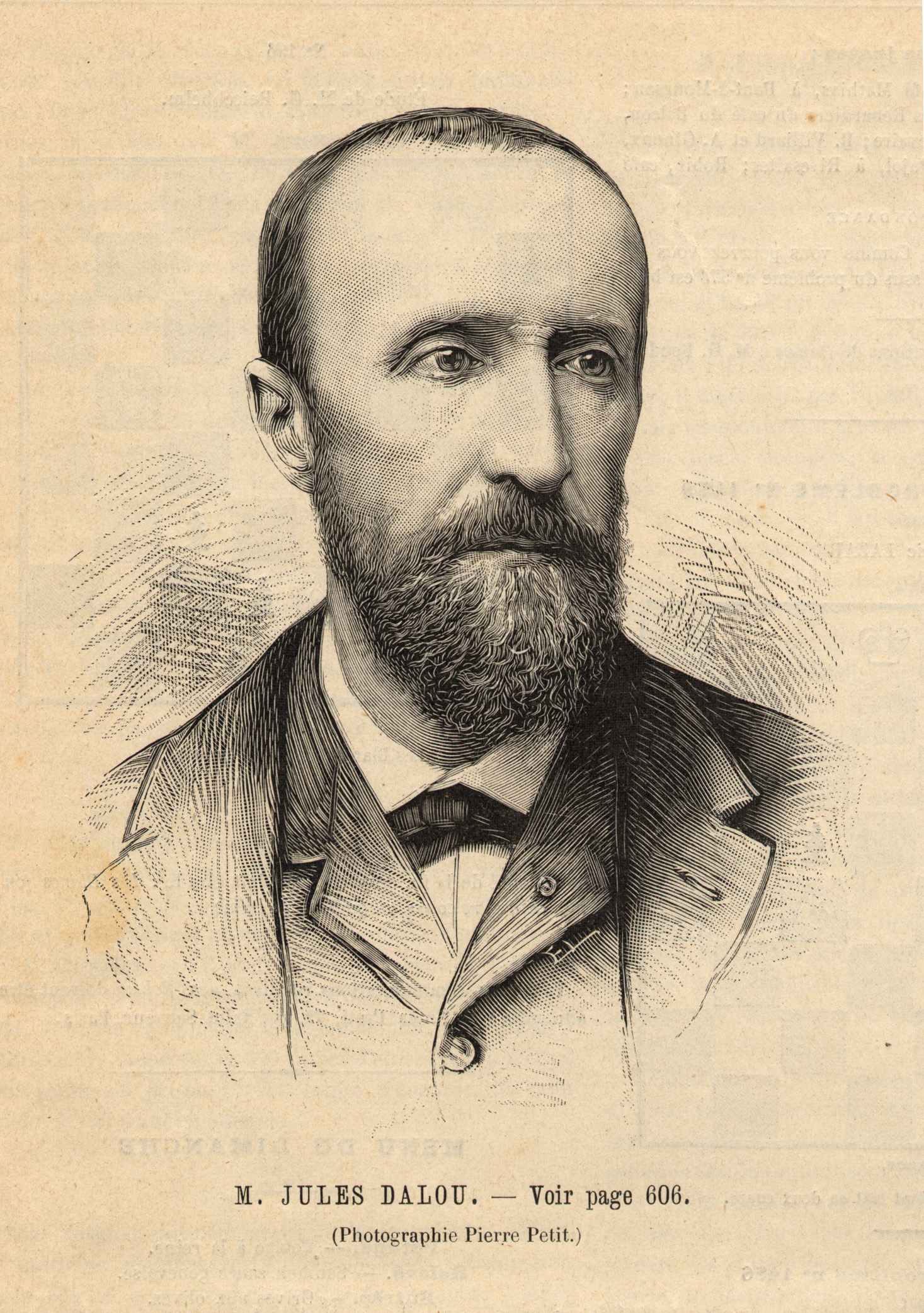 Jules Dalou's portrait after a photograph by Pierre Petit.